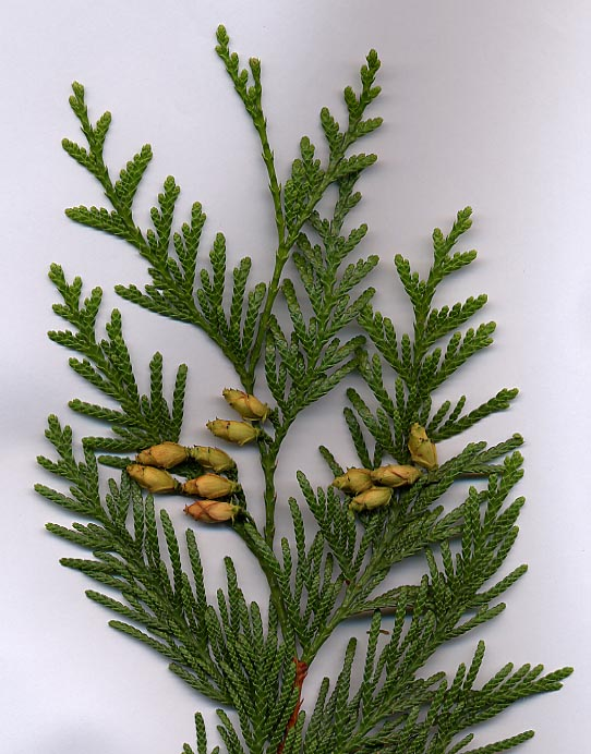 Thuja plicata shoot with mature cones - photo User:MPF